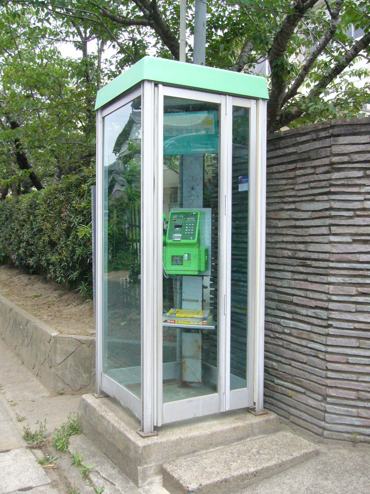 public-telephone,katori-city,japan